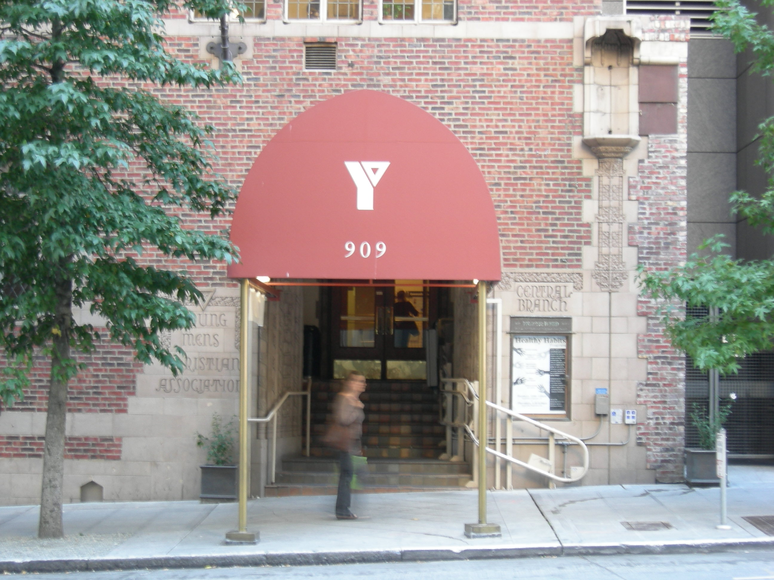 YMCA, 909 4th Avenue, Seattle, Washington, USA. Built 1929-3, designed by A.H. Albertson, has Seattle City landmark status.